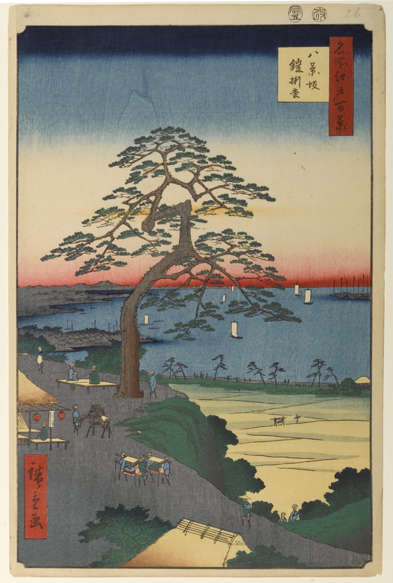 Part of the series One Hundred Famous Views of Edo, no. 026, part 1: Spring.